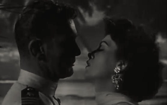 Kenneth Tobey & Faith Domergue in It Came from Beneath the Sea - trailer (cropped screenshot)